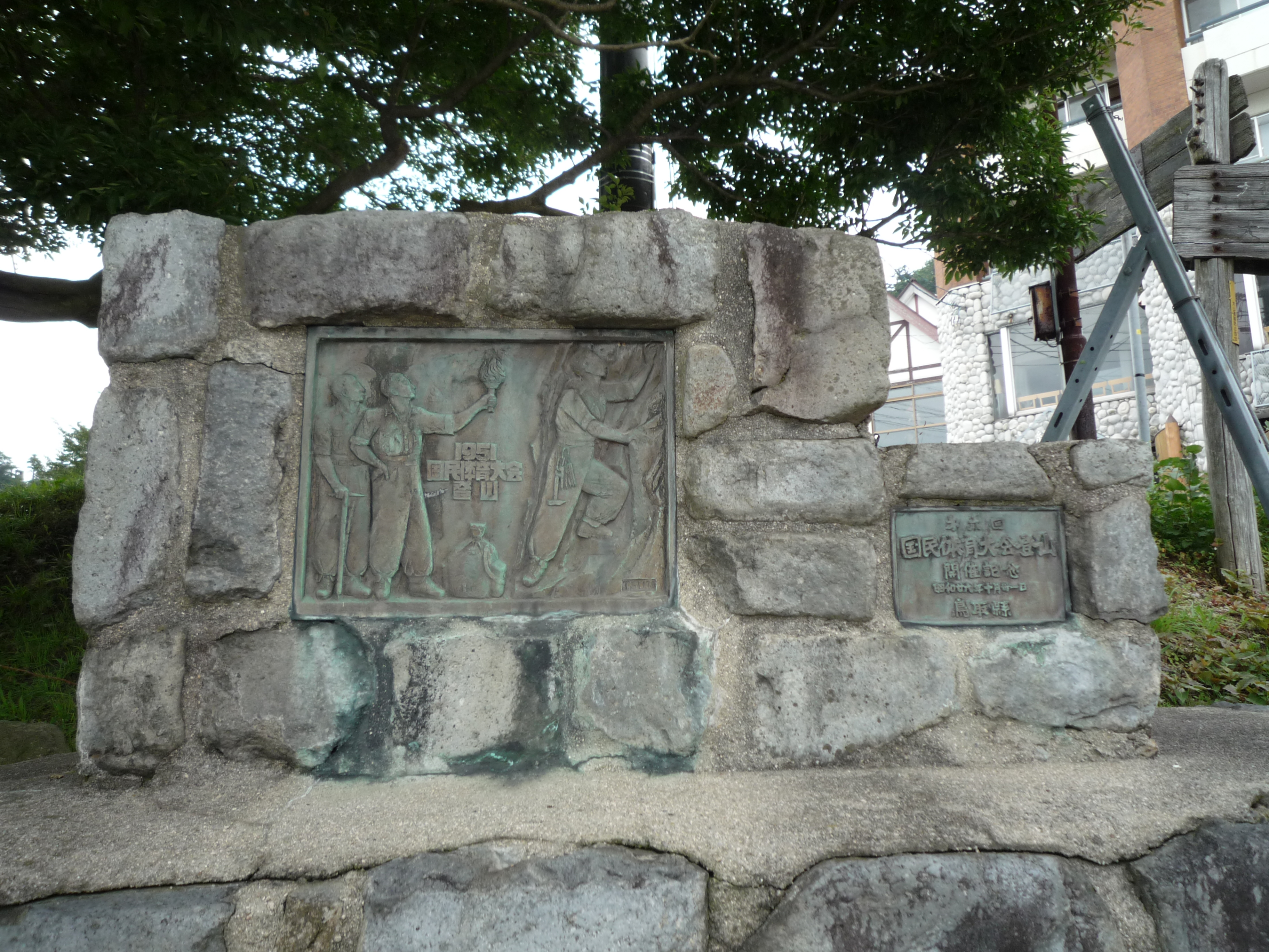 The monument of mountain climbing competition in The 6th National Sports Festival of Japan. Daisen Town, Tottori Prefecture, Japan.